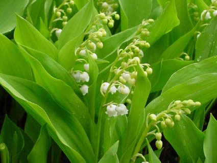 Convallaria majalis